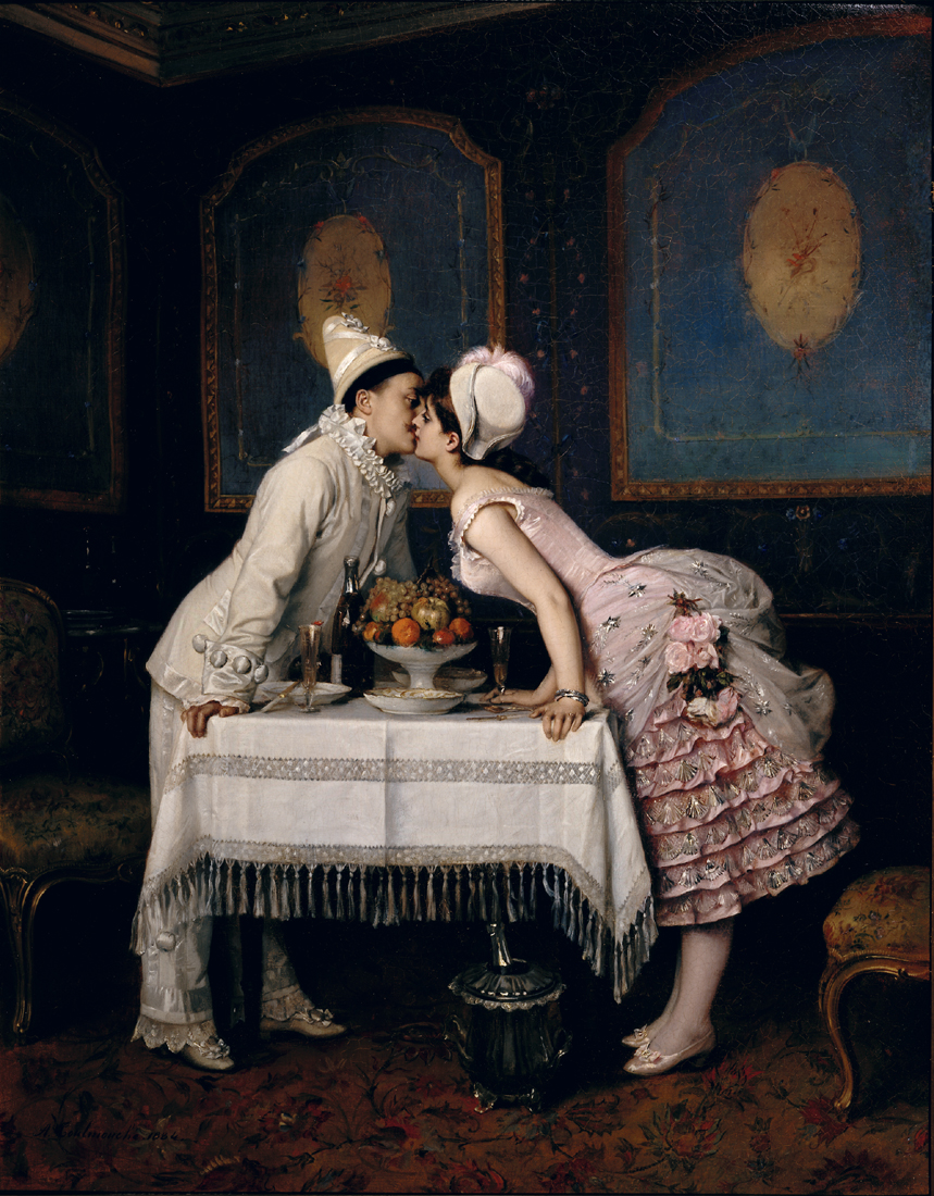 couple wearing masquerade-ball costumes kissing over table